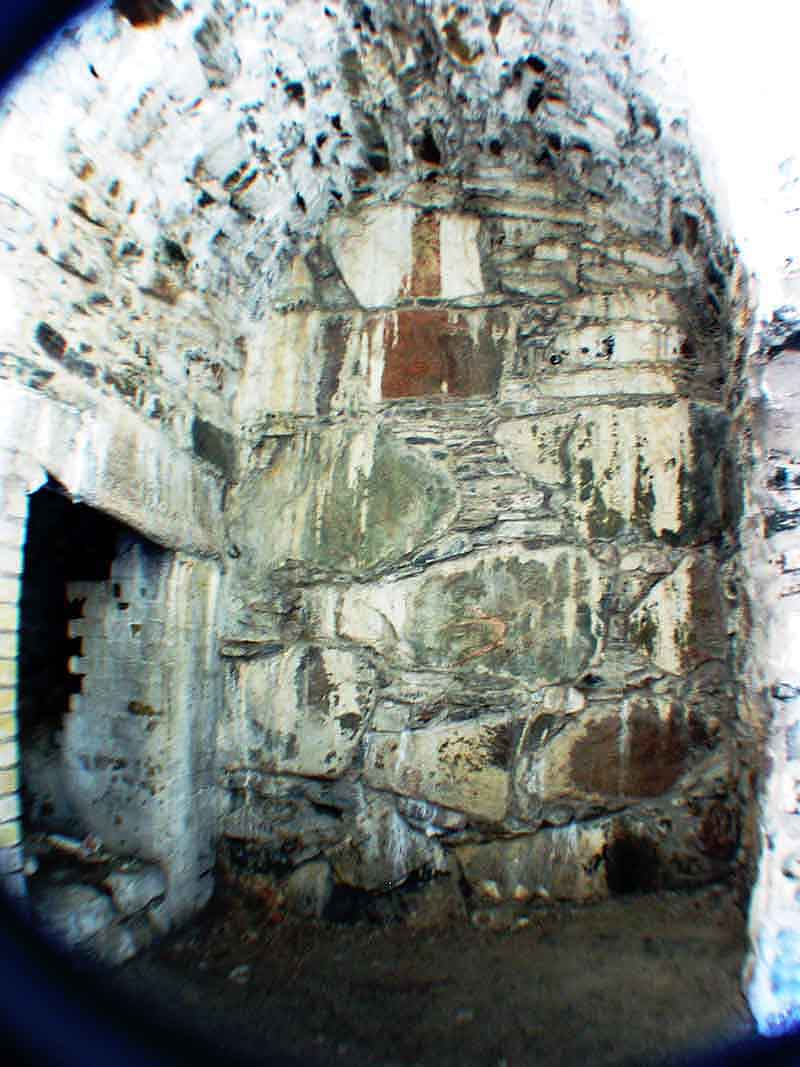 Interior of Thomas Leopold's cell at Bohus Fortress in Kungalv, Sweden